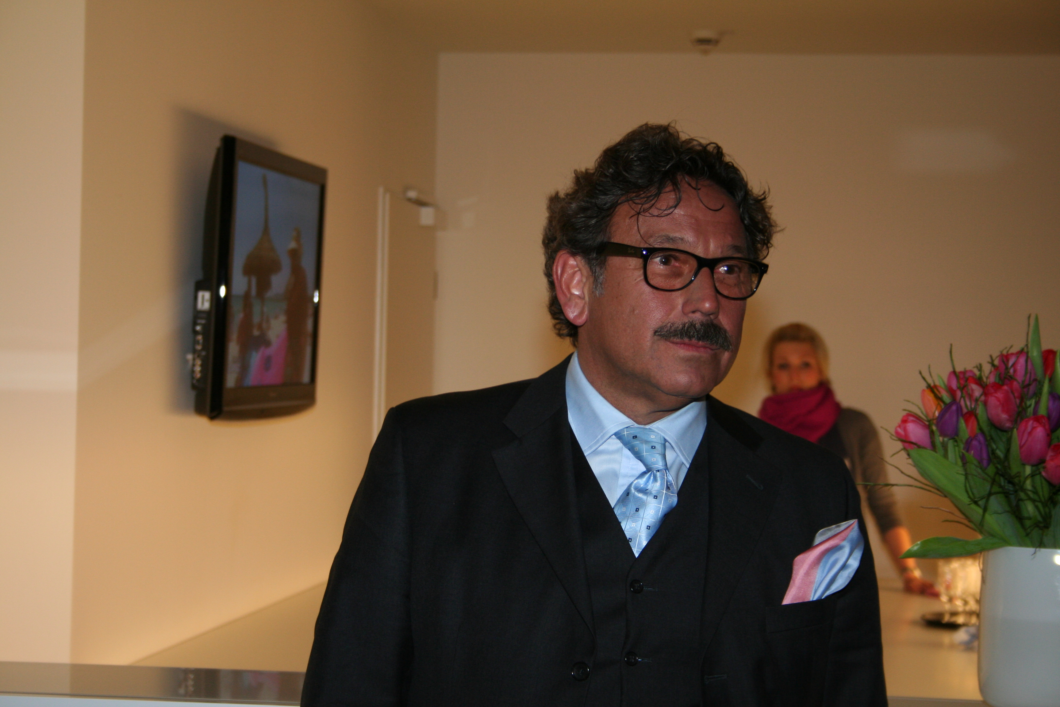 Social scientists from Germany Prof.Dr.Klaus Kocks